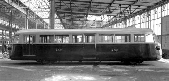 Railcar Renault ZO, État 24005 to 10, later SNCF X 10301 to 6; 1934-1959, 90 km/h, 15 t, 12 m, 110 hp, 35 pl.